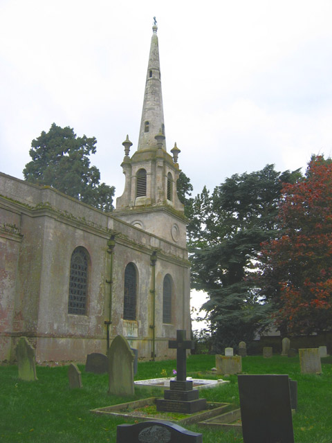 St Peter's parish church, Saxby, Leicestershire, seen from the northeast